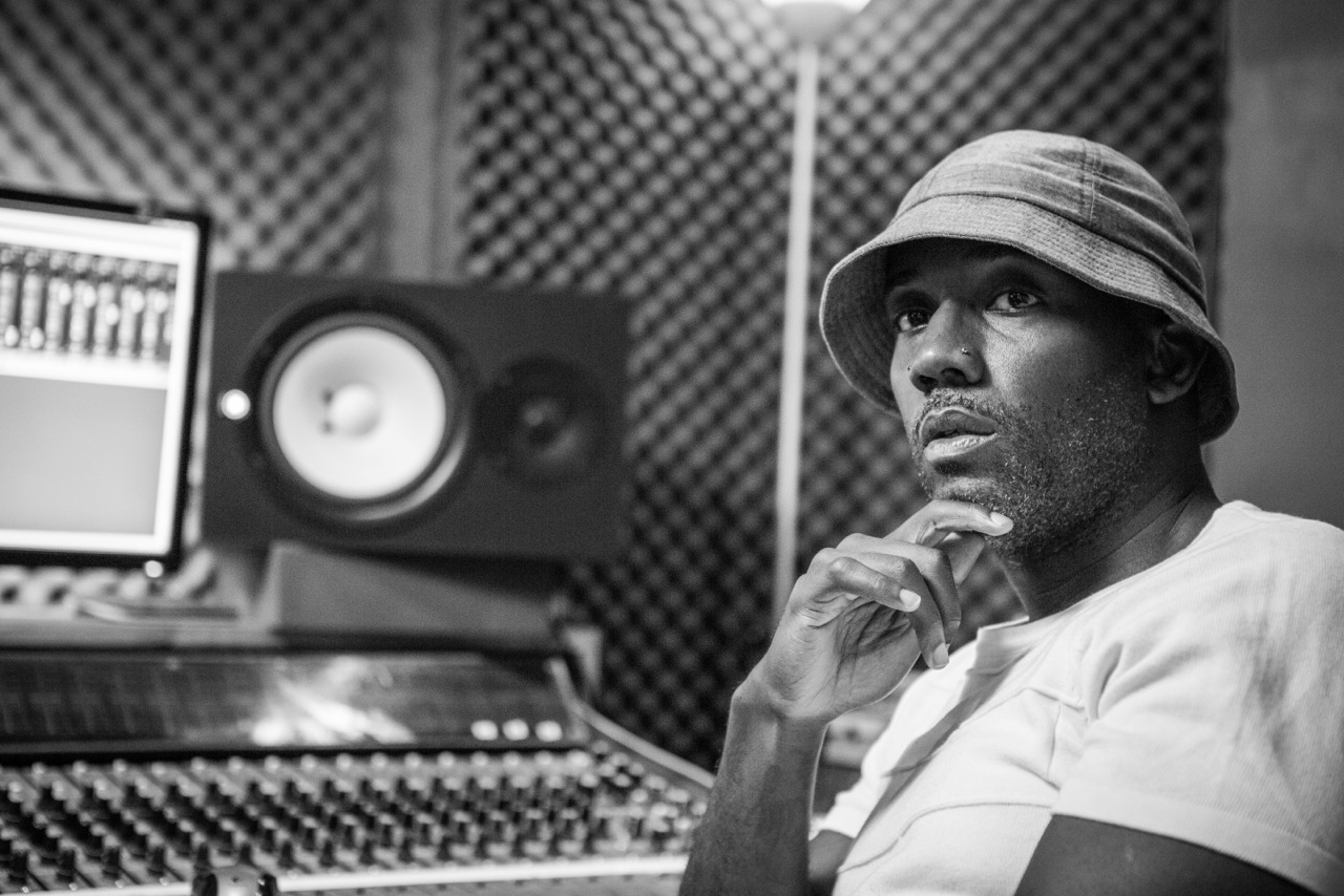 Krunk-a-Delic at Tommirock Studios